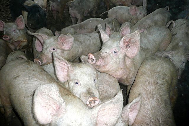 Pigs at Goddard's Farm Those in the sty closest to the footpath were keen to see us.